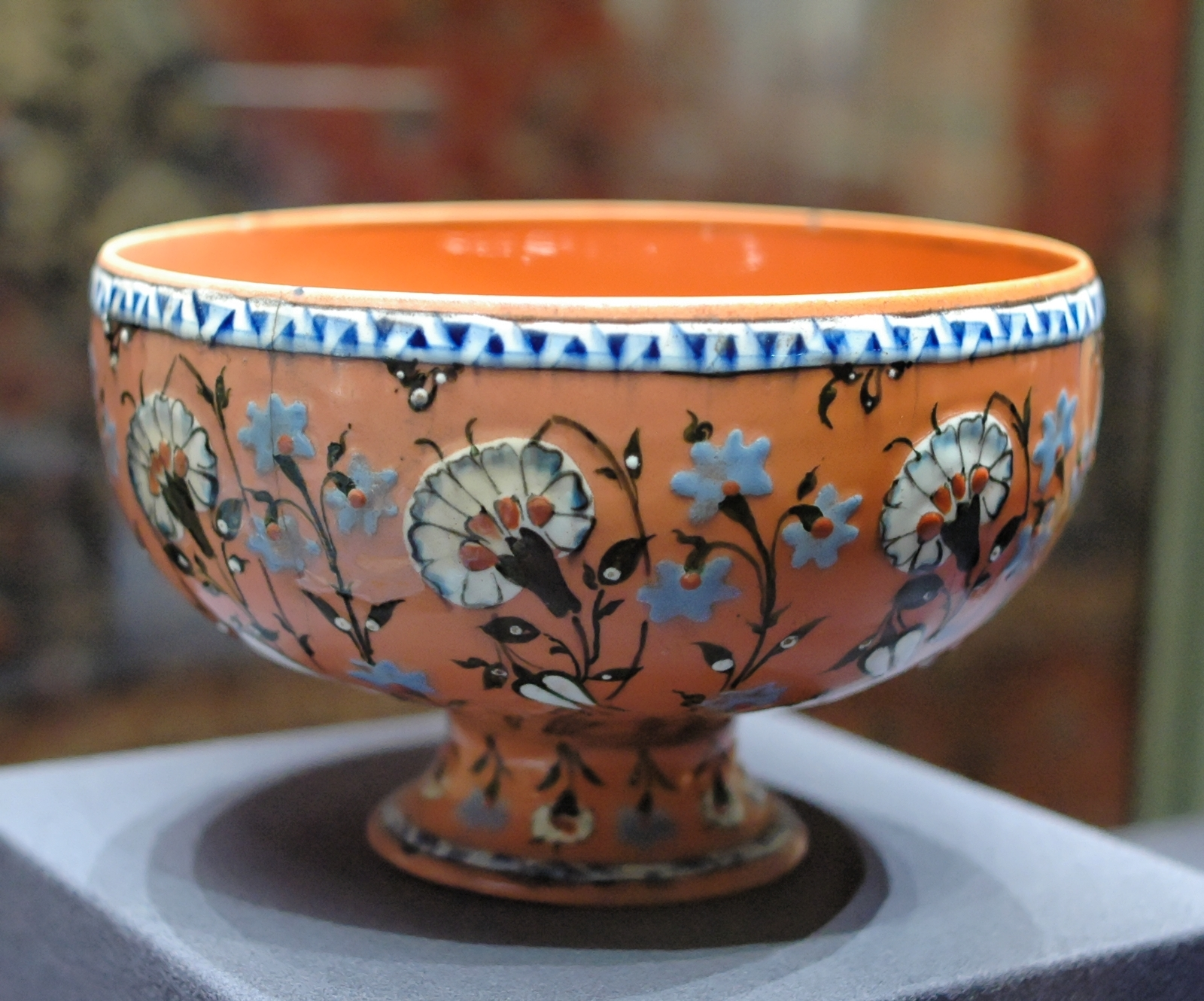 Cup with carnations. Slipped earthenware, transparent glaze, painted underglaze on slip. Turkey: Iznik.